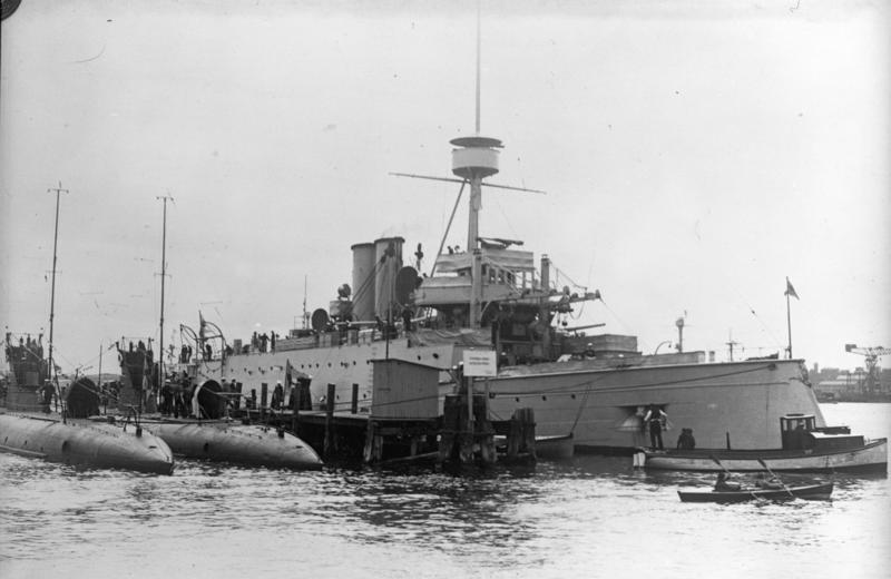 Former Swedish coastal battleship Svea, converted to submarine depot ship